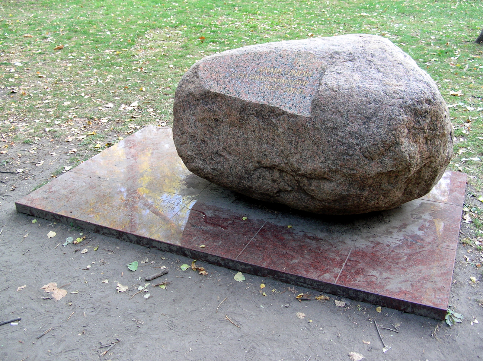 Anna Lindh memorial stone in the Budapest City Park (Városliget) Inscription: "Resignation is our biggest enemy."